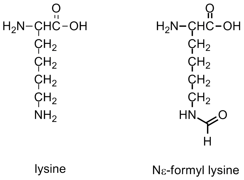 lysine structure and n-formyl lysine post translational modification